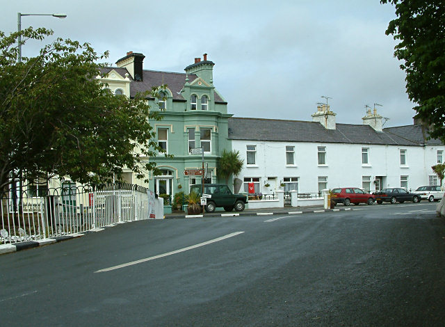 Ballaugh Bridge on the TT circuit. Ballaugh - Isle of Man